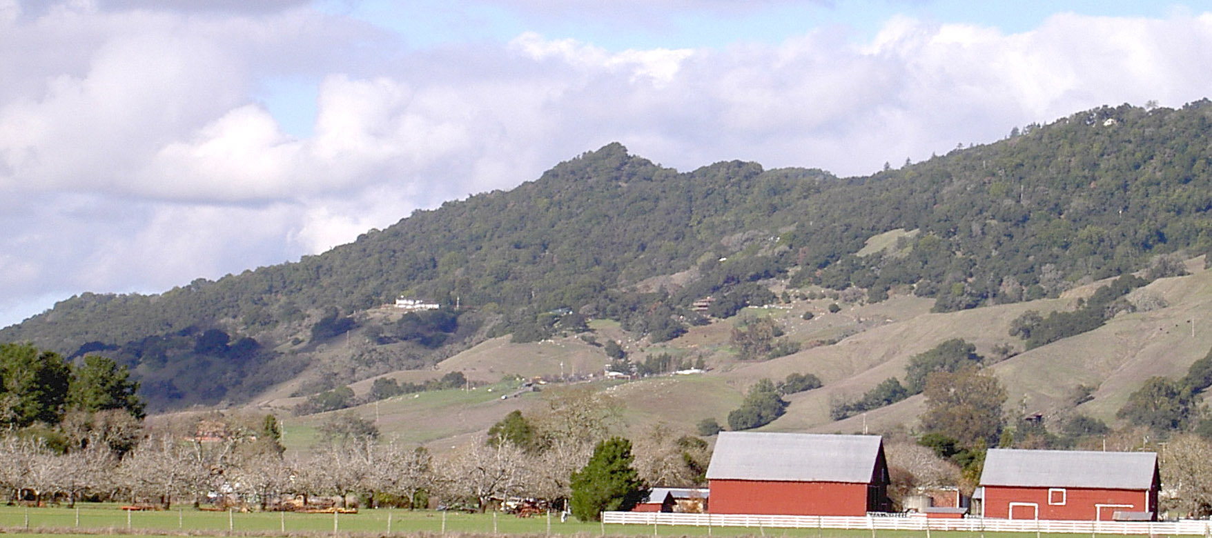 Photo of Taylor Mountain in Sonoma County, California, taken by Stephen R. Gold on January 7, 2008 looking north from Petaluma Hill Road just north of Crane Creek. Cropped and enhanced using Adobe Photoshop Elements.